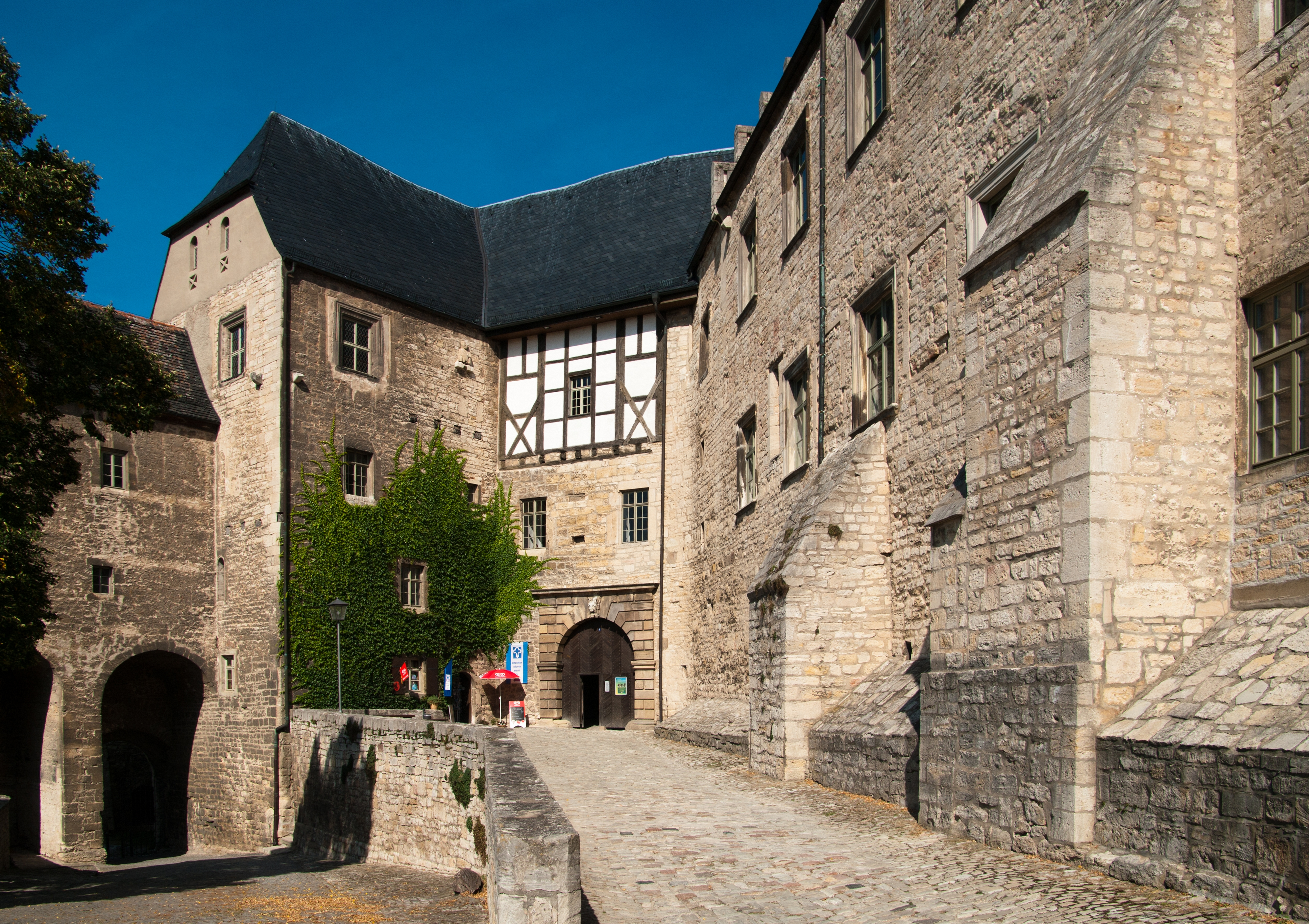 Neuenburg Castle, Freyburg, Saxony-Anhalt